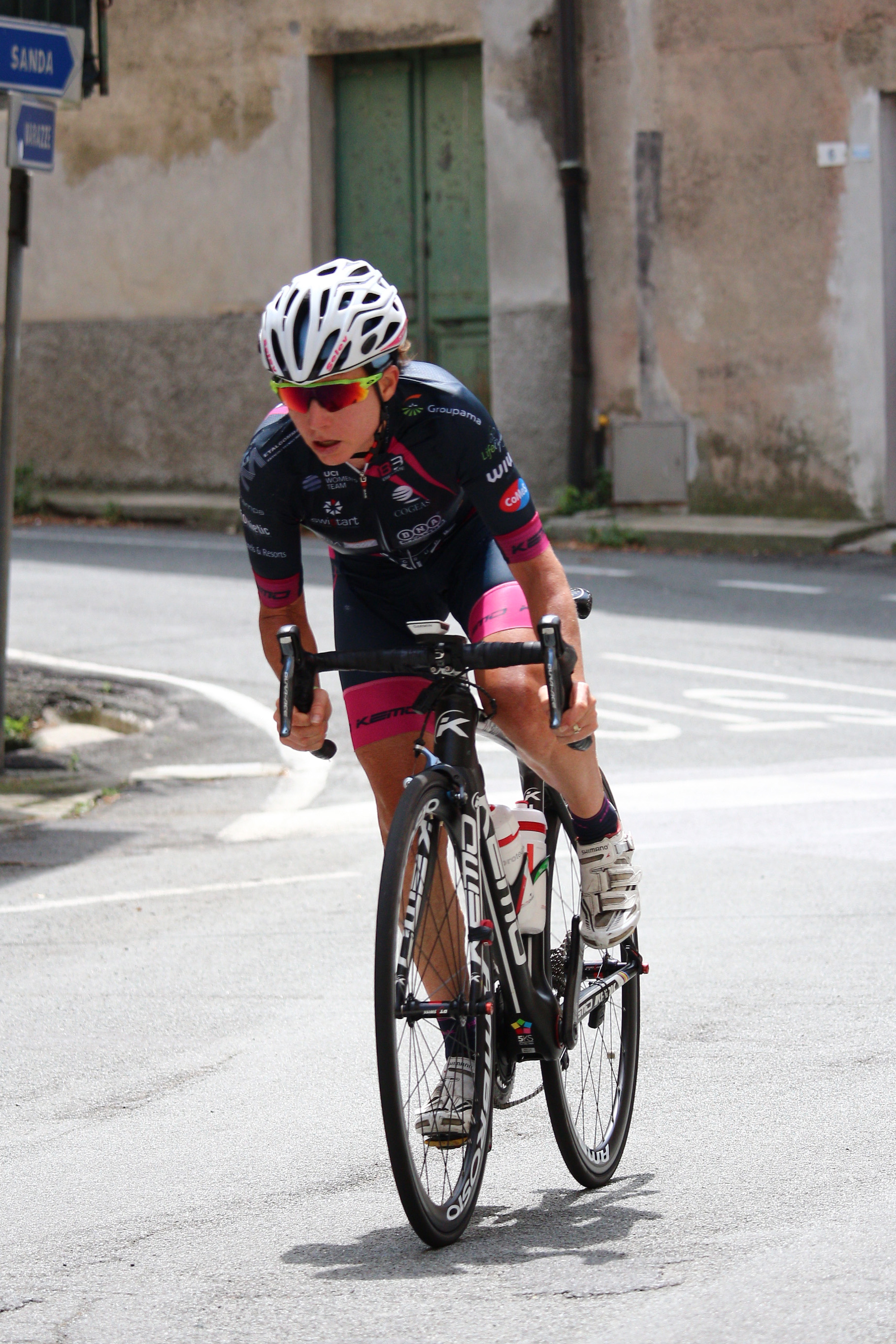 Amber Neben during the 7th stage of Giro Rosa 2016 in Stella San Martino